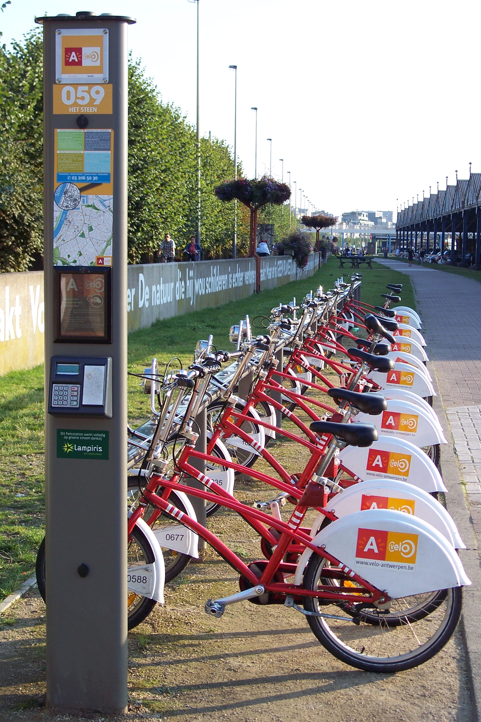 Station het Steen of Velo Antwerpen, the bicycle sharing system of Antwerp.